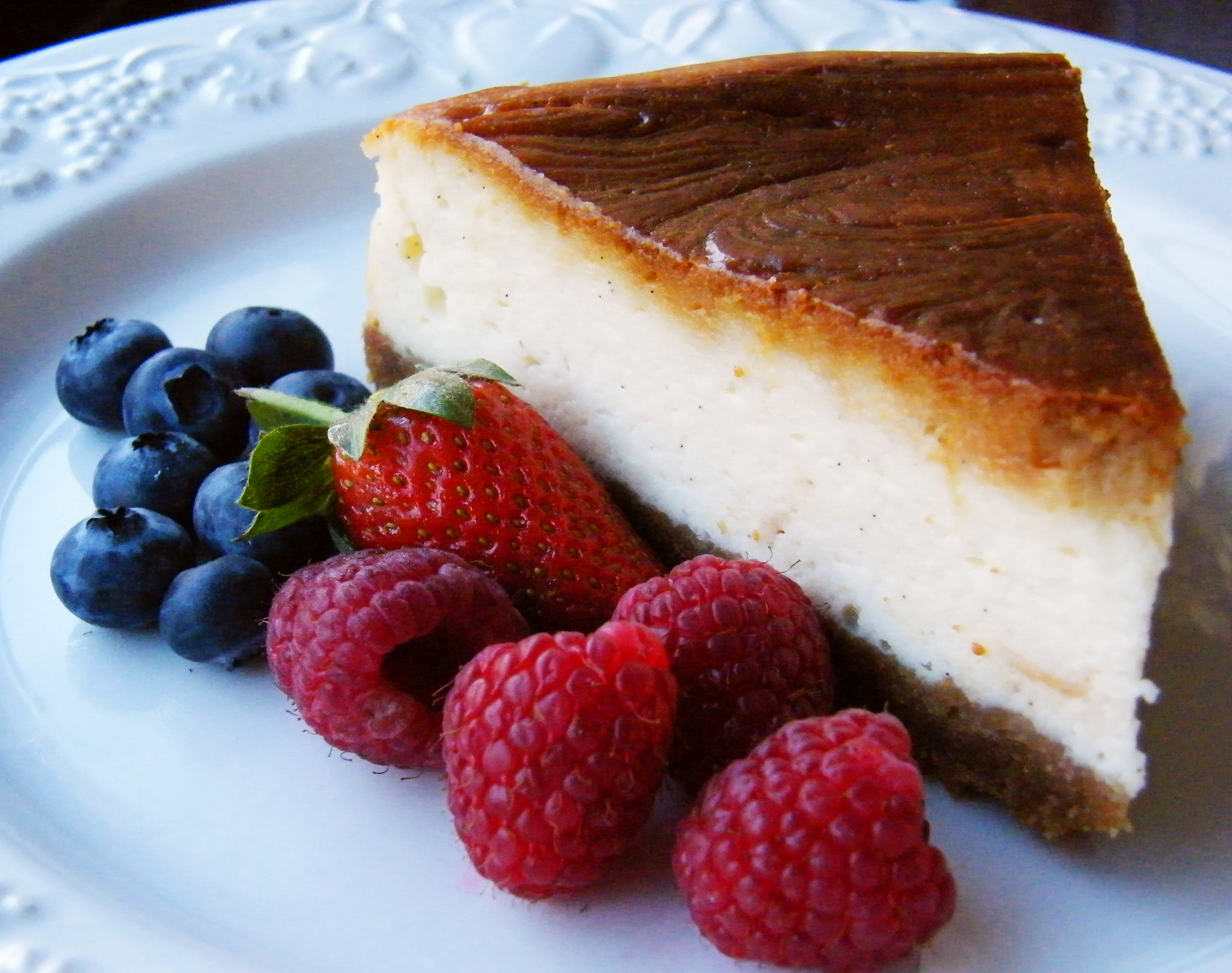 Baked cheesecake with raspberries and blueberrie